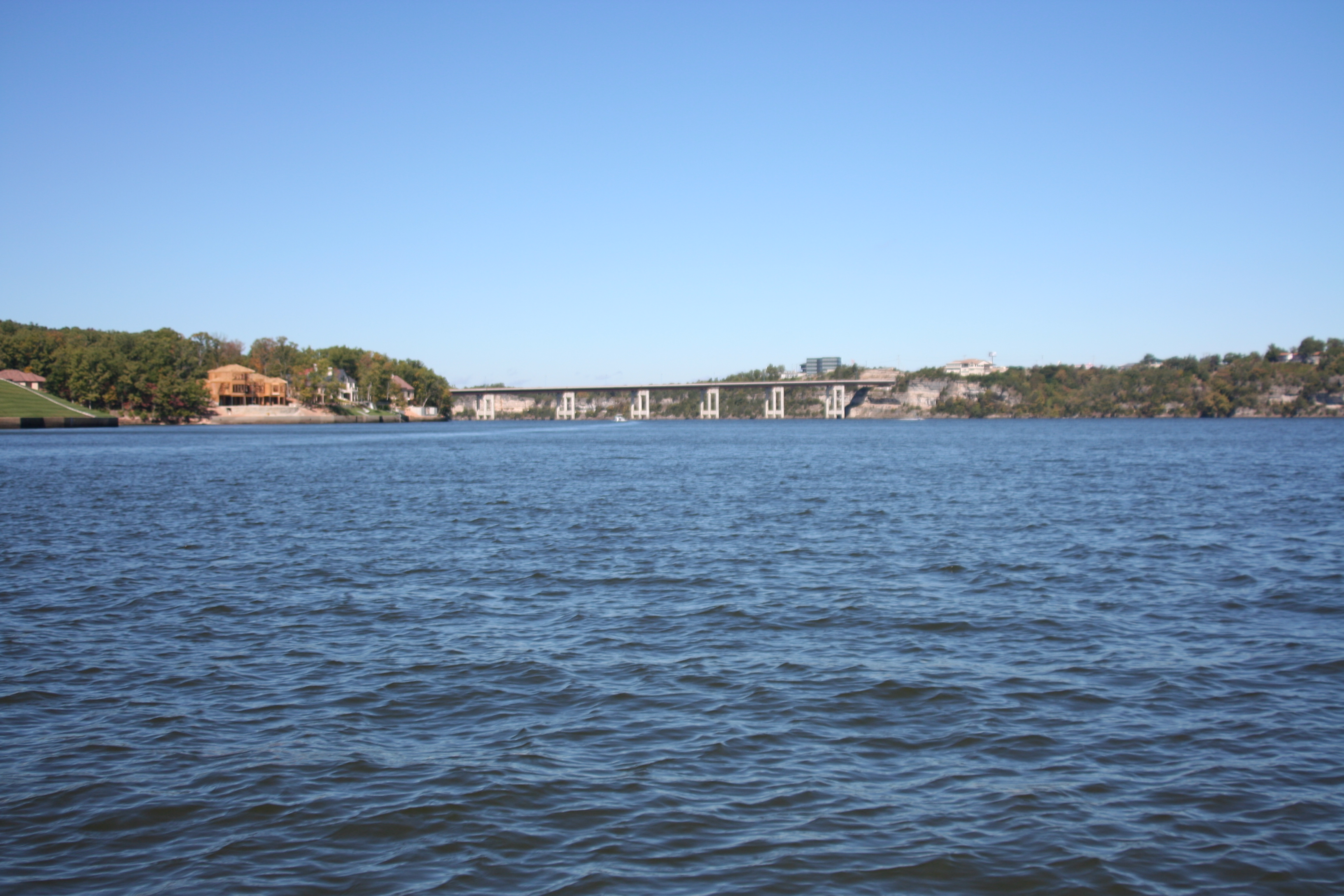 The Community Bridge at Lake Ozark, Camden County, Missouri, USA. Mile Marker=?